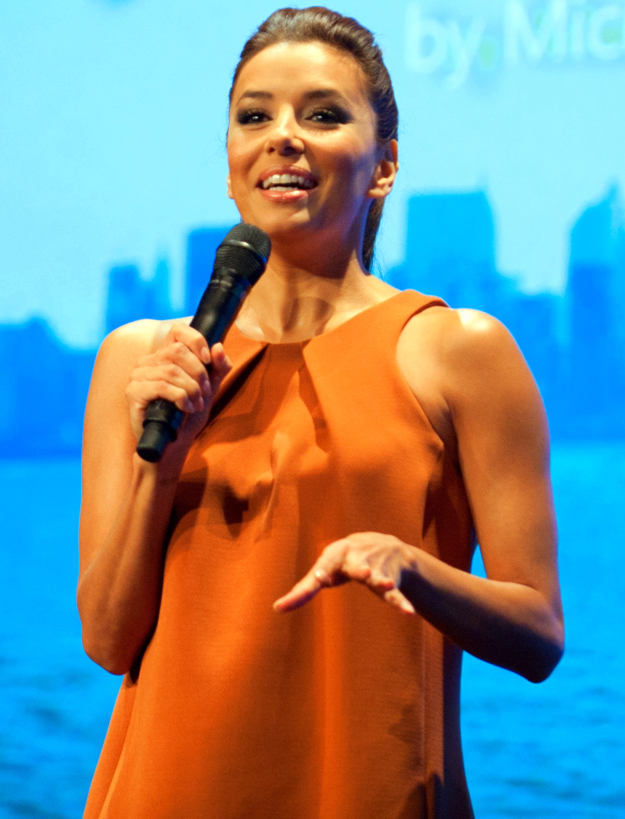 Eva Longoria at Imagine Cup 2011.